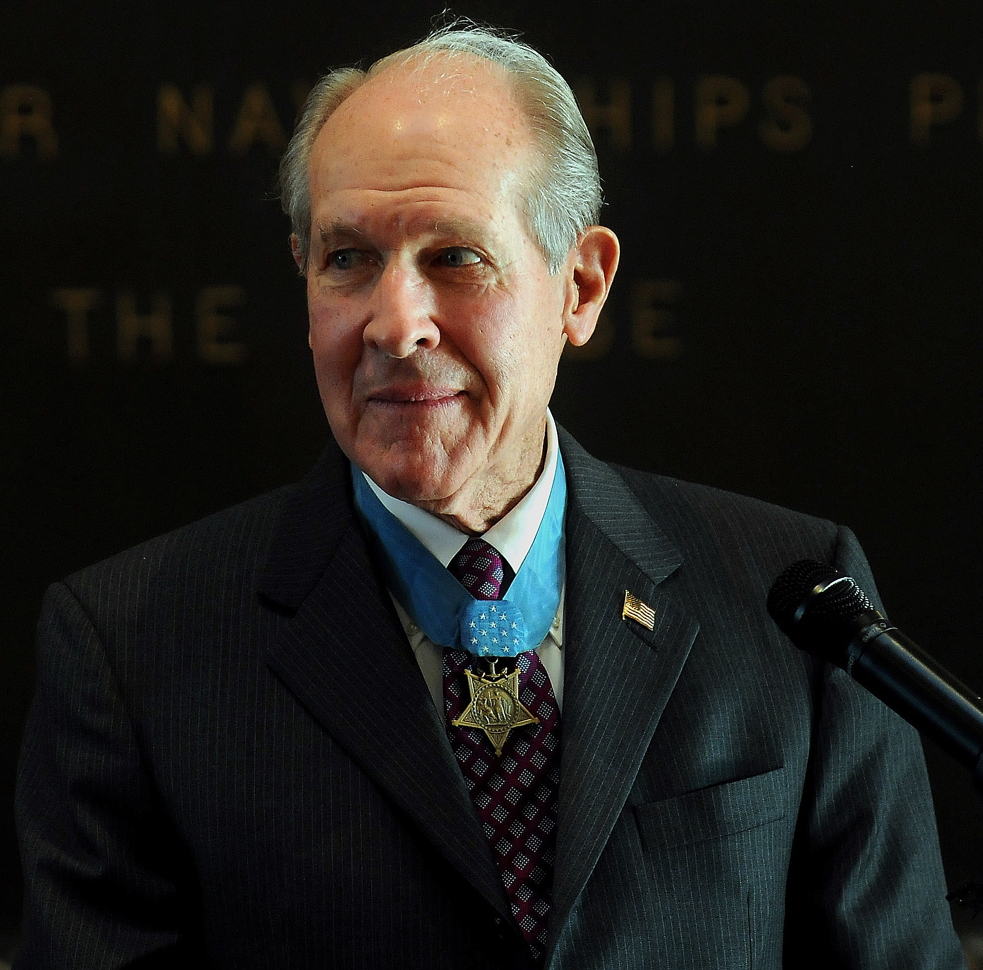 ANNAPOLIS, Md. (Dec. 15, 2008) Medal of Honor recipient retired Capt. homas J. Hudner, Jr. addresses friends, midshipmen and several honored guests during his "Visions of Valor" portrait unveiling in Bancroft Hall at the U.S. Naval Academy. Hudner and 139 other military Medal of Honor recipients are celebrated in the "Visions of Valor" portrait collection. Hudner is the only living Naval Academy alumnus with the Medal of Honor.